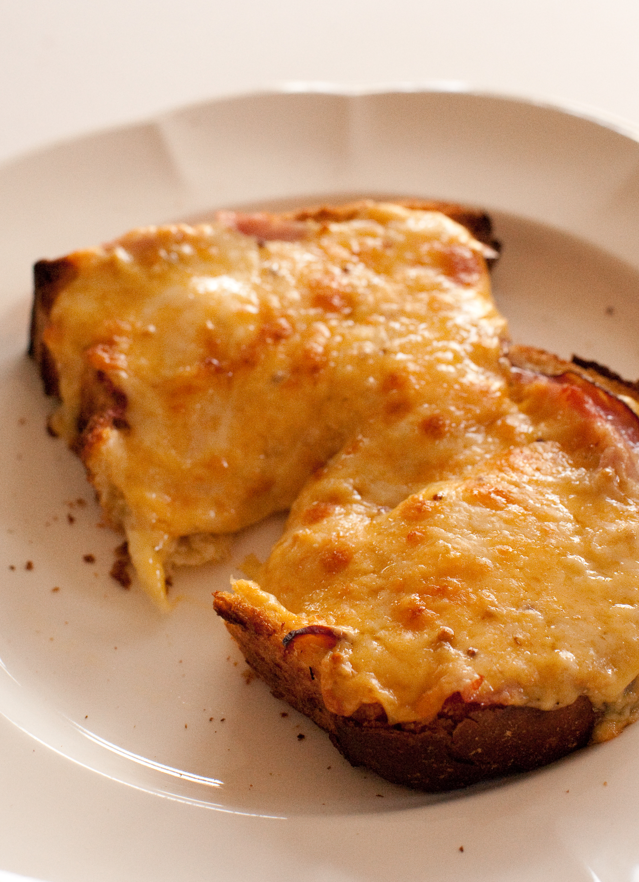 A plate of cheese on toast.